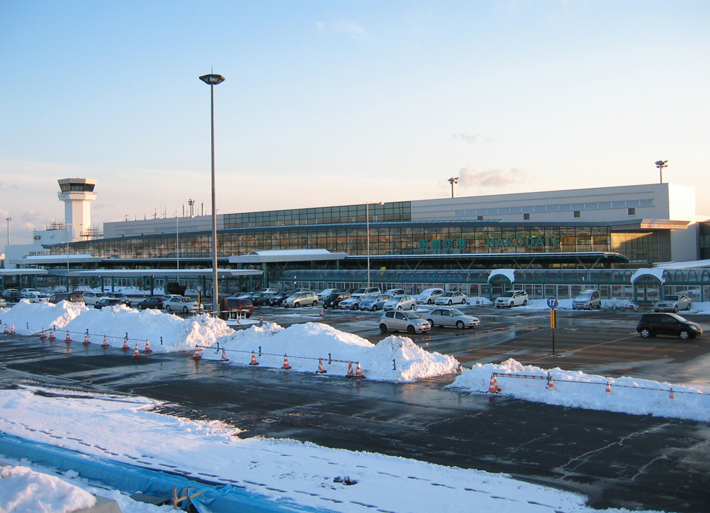 Hakodate Airport Passengers Terminal Building